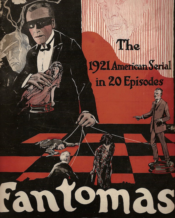 Advertisement for an American silent serial Fantômas (1920) (which had some episodes released in 1921).